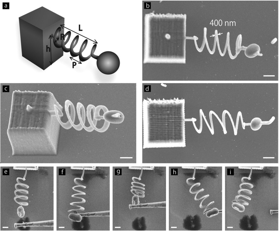 (a) Schematic showing the dimensions of a polymer nanocoil spring. The coil radius, R, pitch, P, length of the spring, L, and the number of turns, N, are 2.5 μm, 2.0 μm, 13 μm, and 4, respectively. (b,c) SEM images of a polymer nanocoil spring. (b,c) are top and perspective views, respectively. (d) SEM image of a nanocoil spring supported by an additional polymer pole. (e–i) FIB images of the spring before loaded (e), stretched (f), compressed (g), bent (h), and recovered (i). All scale bars are 2 μm.